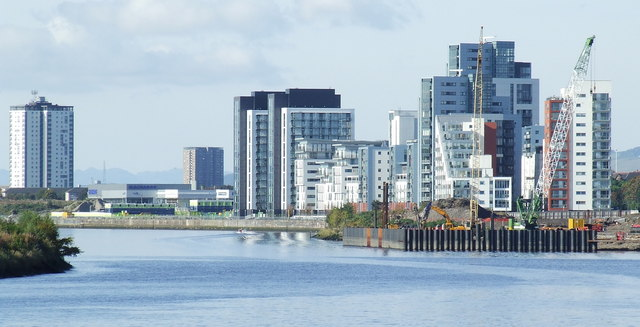 Glasgow Harbour. A new housing development on the site of the former Meadowside granary. Viewed from the Millennium bridge at Pacific Quay. See also NS5566 : Glasgow Harbour.